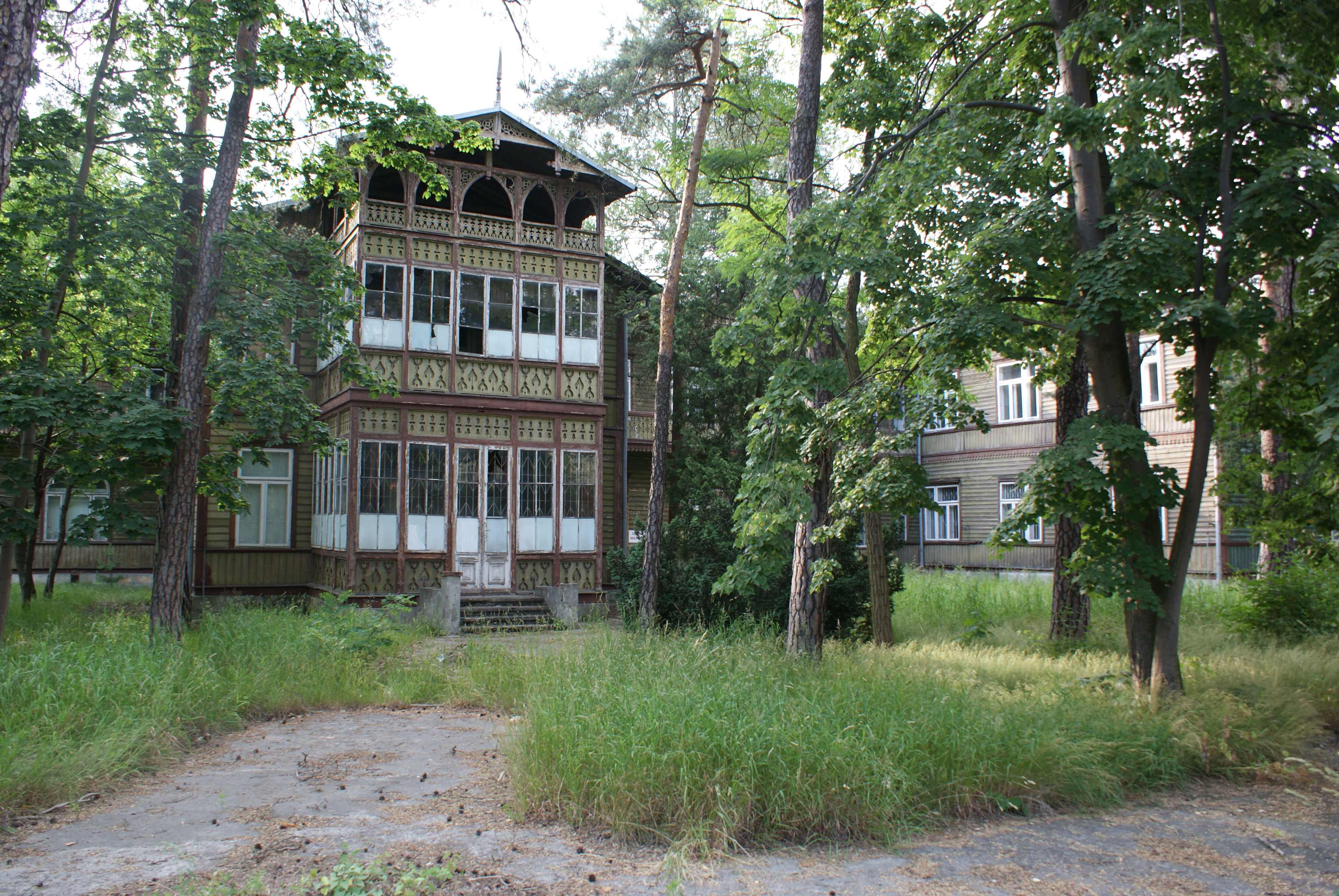 Fragment Willi Górewicza w Otwocku. Prawdopodobnie jednej z najdłuższych drewnianych budowli w Europie